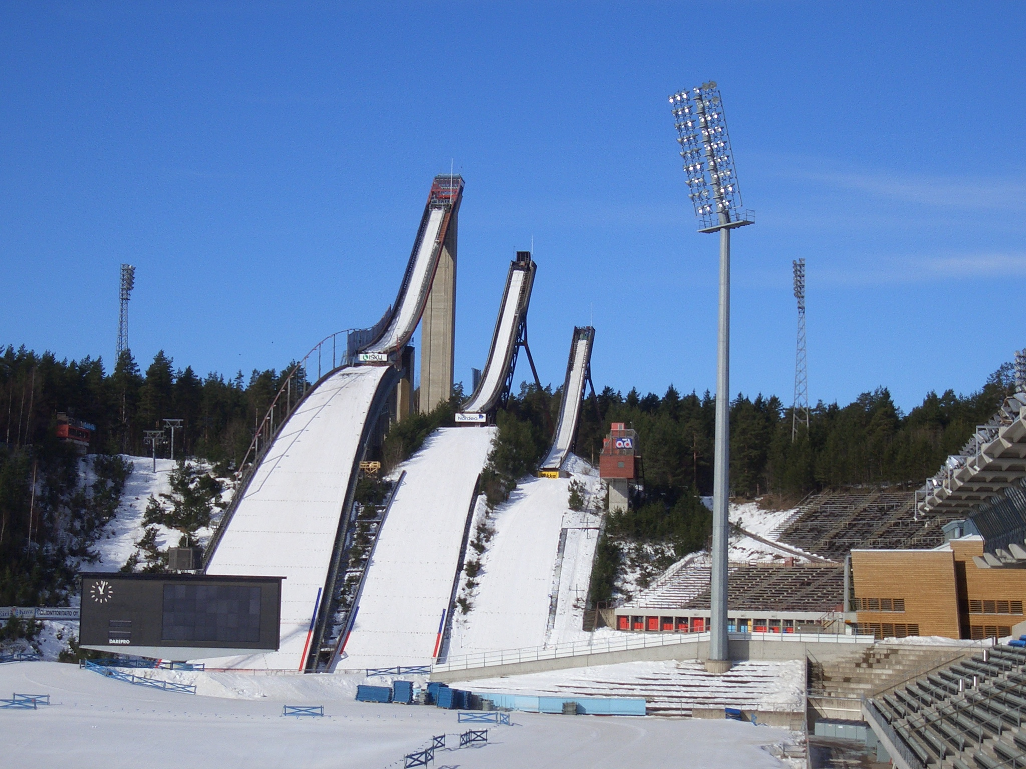 Salpausselkä ski jumps, Lahti, Finland